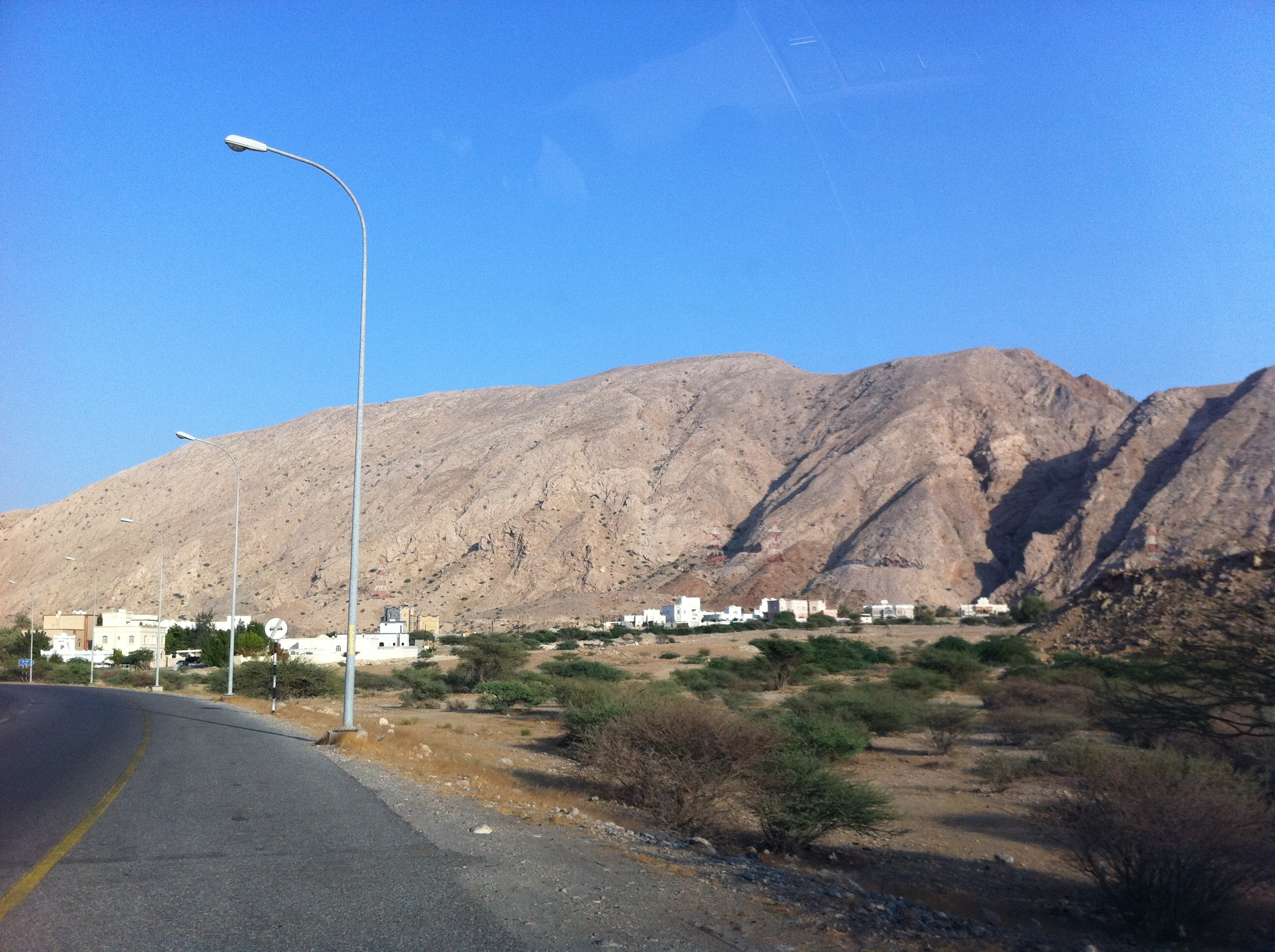 Mountains in Baushar